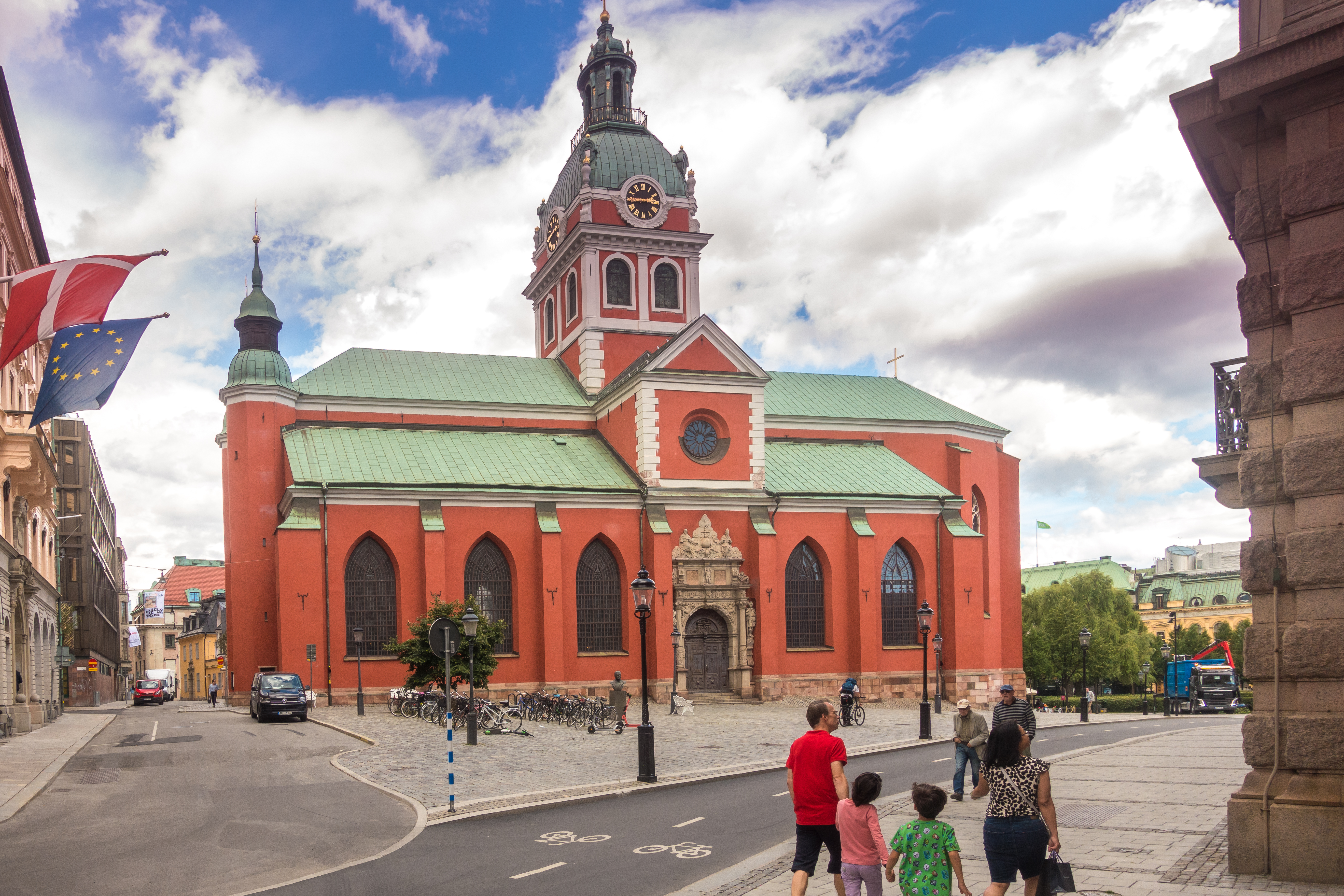 Jakobs torg in Stockholm in July 2020.